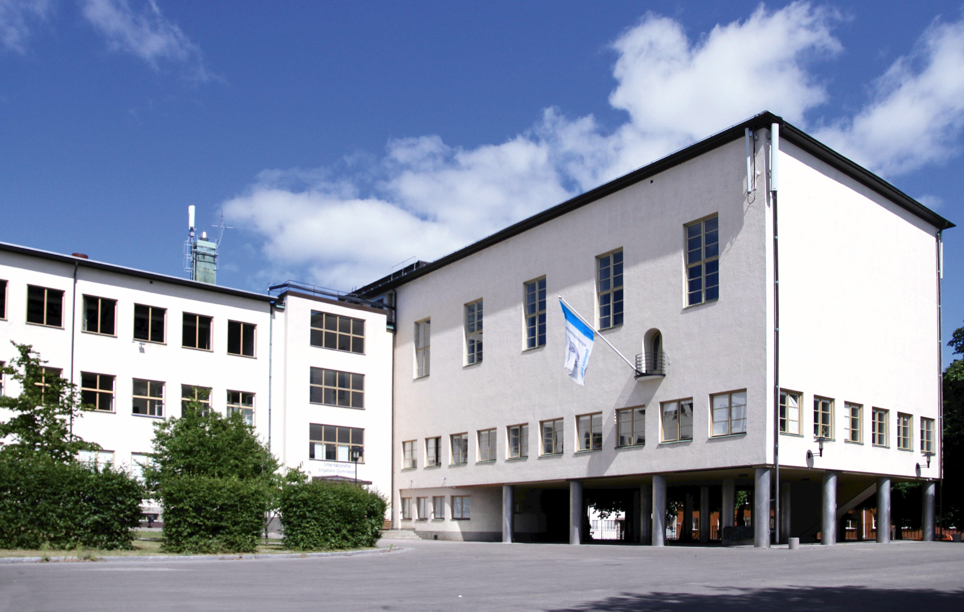 Internationella Engelska Gymnasiet, Södermalm, Stockholm - The high school run by Internationella Engelska Skolan i Sverige AB, at Allhelgonagatan on Södermalm